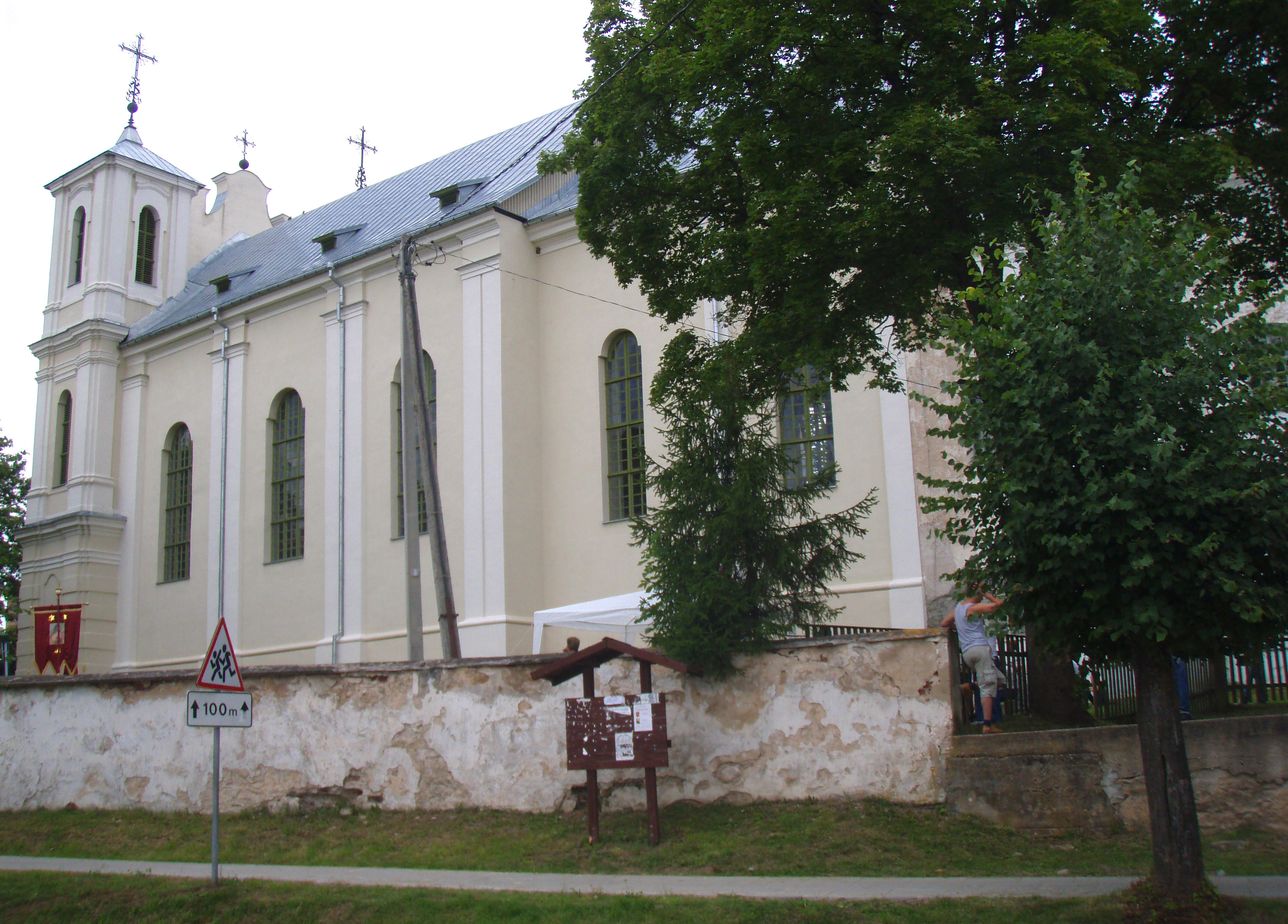 A church in Antaliepte, Lithuania